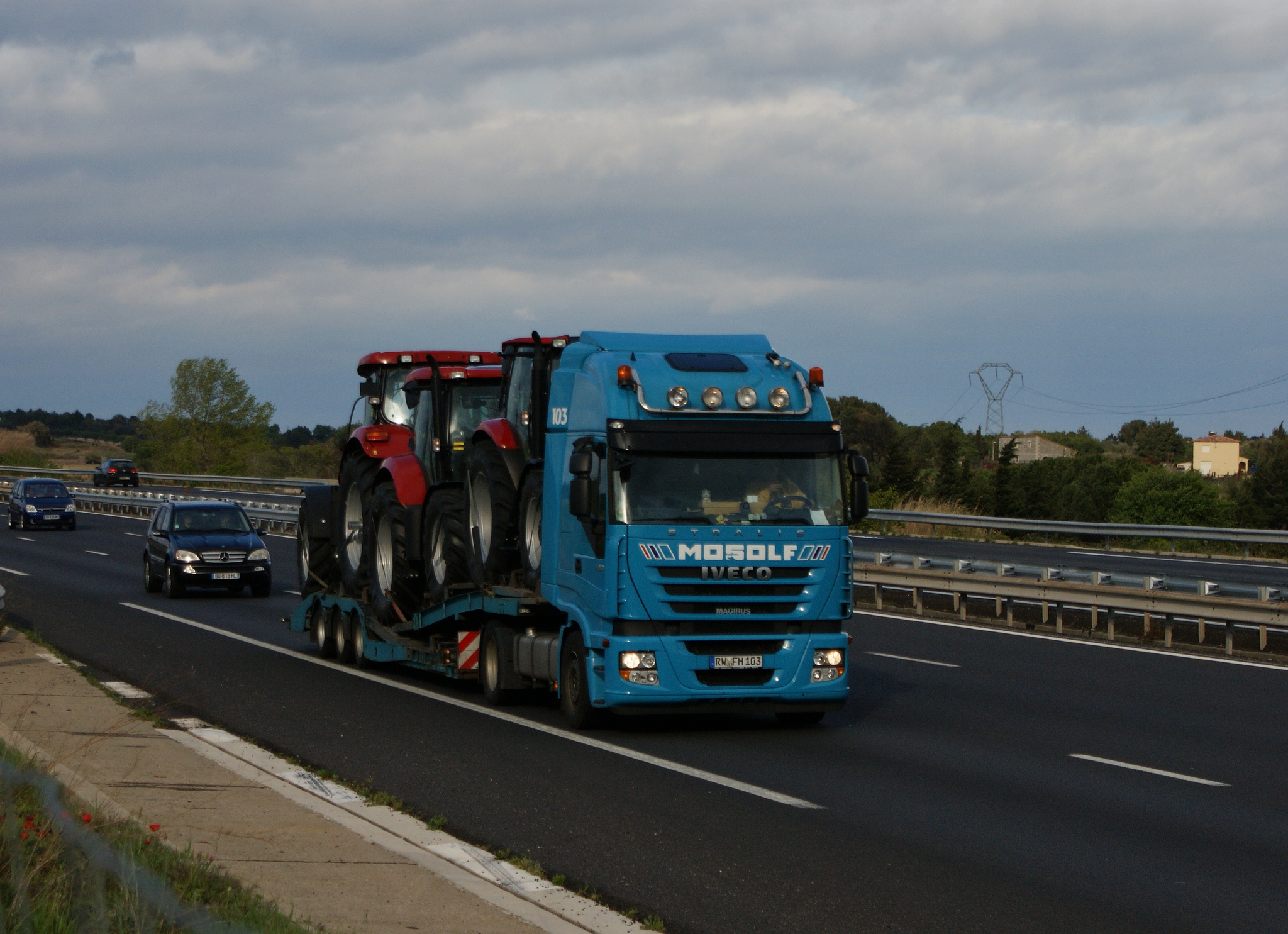 Mosolf 103 Iveco Stralis